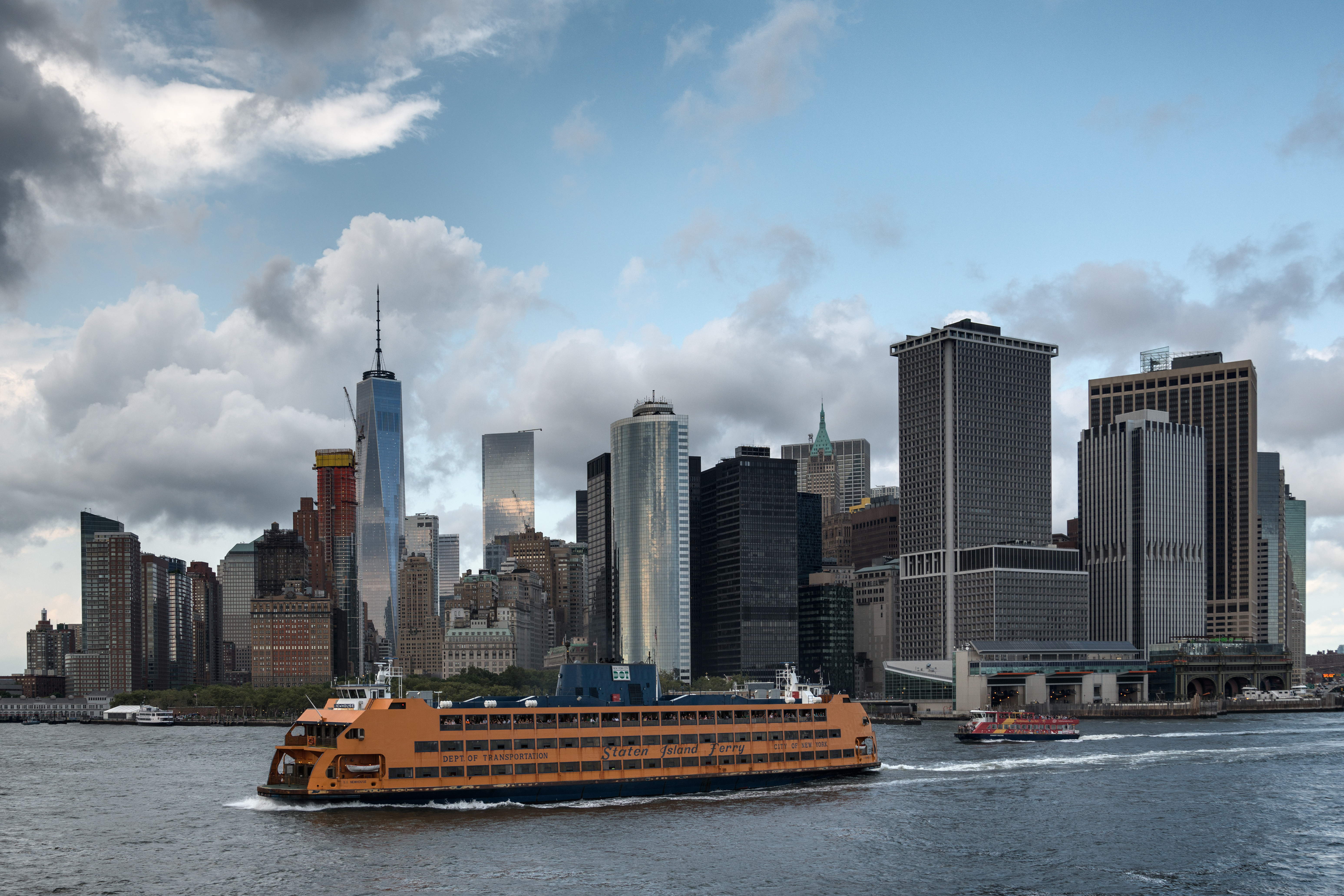 Manhattan Skyline - Staten Island Ferry, New York, NY, USA